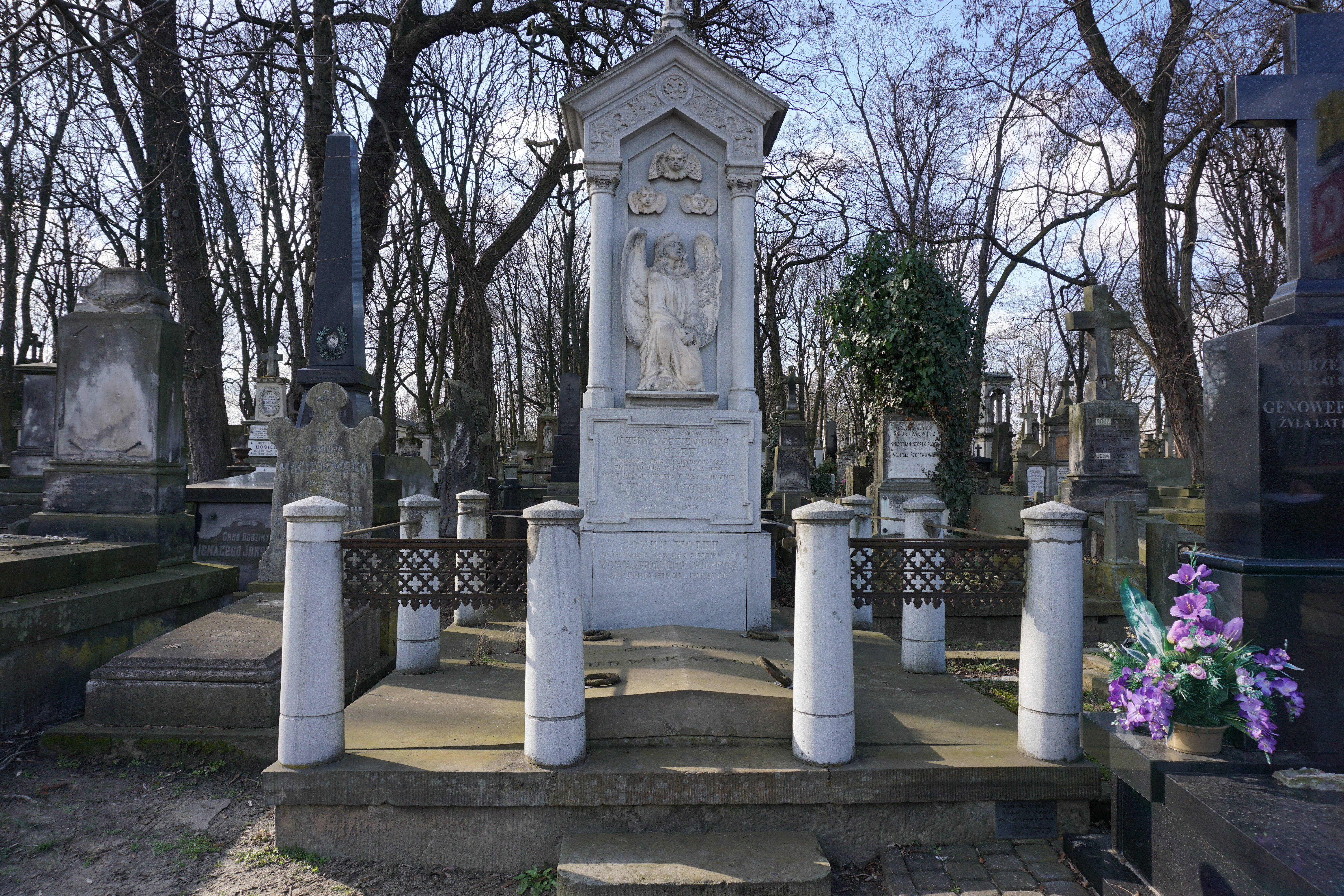 The grave of Józef Wolff at the Powązki Cemetery (section 156, row 2, grave 16, 17)